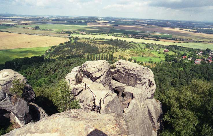 Drábské světničky rock castle near Mnichovo Hradiště, Czech Republic. A view from lookout point at the top of the castle.